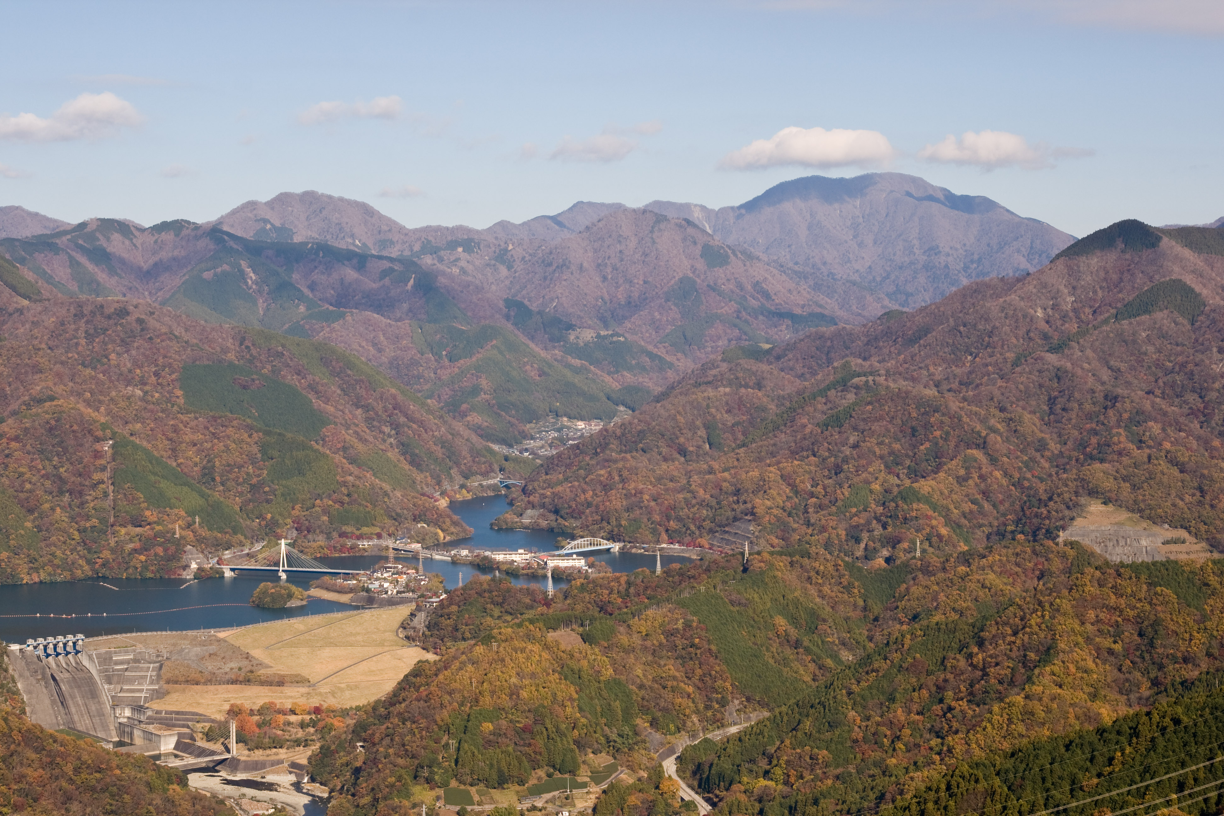 Lake Tanzawa, Yamakita Town, Kanagawa Pref., Japan.